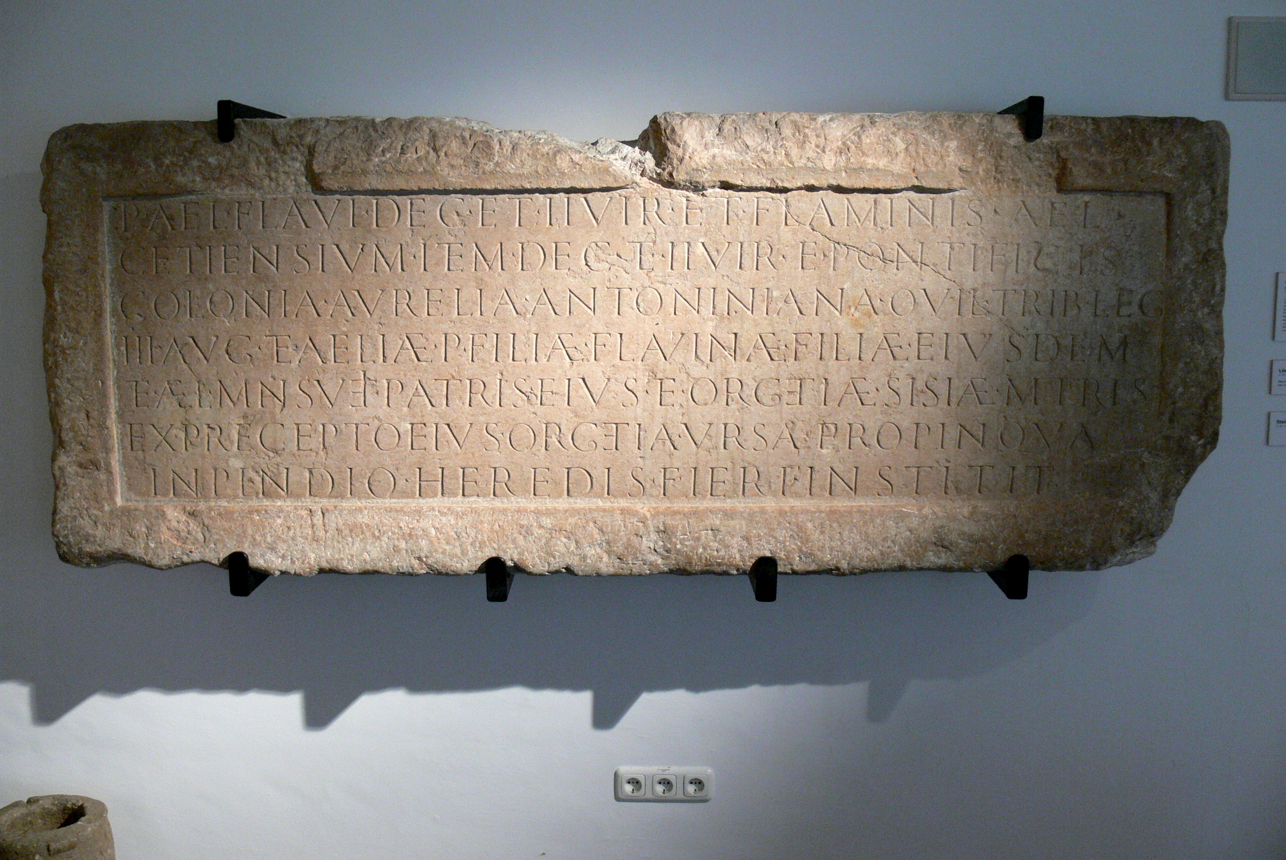 Wels ( Upper Austria ). City Museum Minoritenkloster - Roman department: Latin inscription at a grave ( 3rd century AD ): "Orgetia Ursa has set this stone for Publius Aelius Flavius, councillor, mayor and flamen ( priest ) of Aelium Cetium ( St.Pölten ) as well as councillor, mayor and pontifex ( priest ) in the colony of Ovilava and tribun of the Legio III Augusta, and for his daughter Aelia Flavina and his father Aelius Mansuetus and his mother Orgetia Sisia."